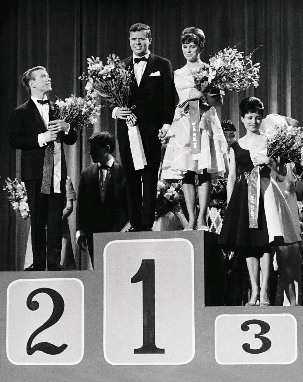 Top 3 of the Danish preselection for the Eurovision Song Contest 1963: 1 = Grethe & Jørgen Ingmann; 2 = Bjørn Tidmand; 3 = Birthe Wilke